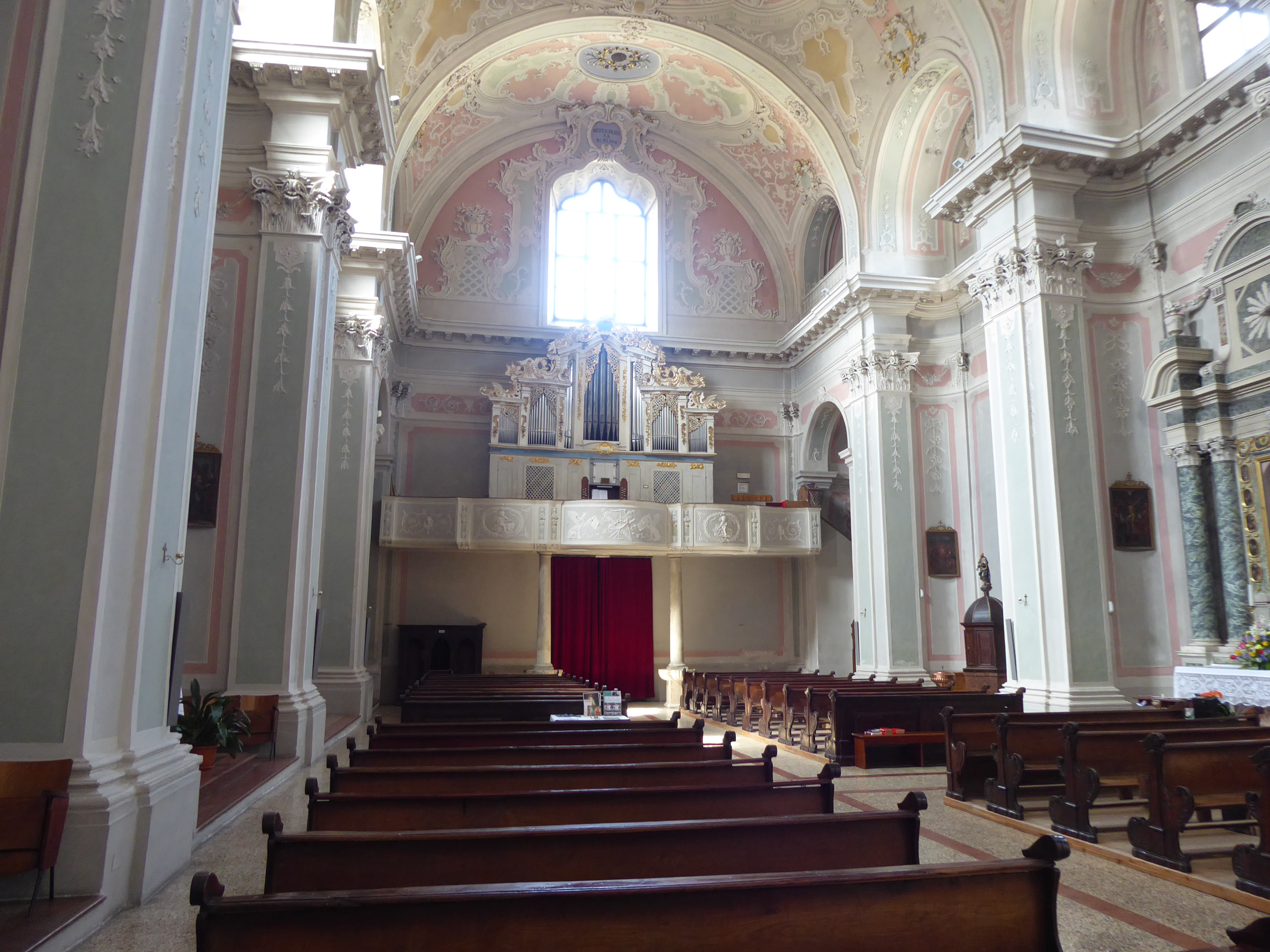 Verla (Giovo, Trentino, Italy) - Church of the Assumption - Interior